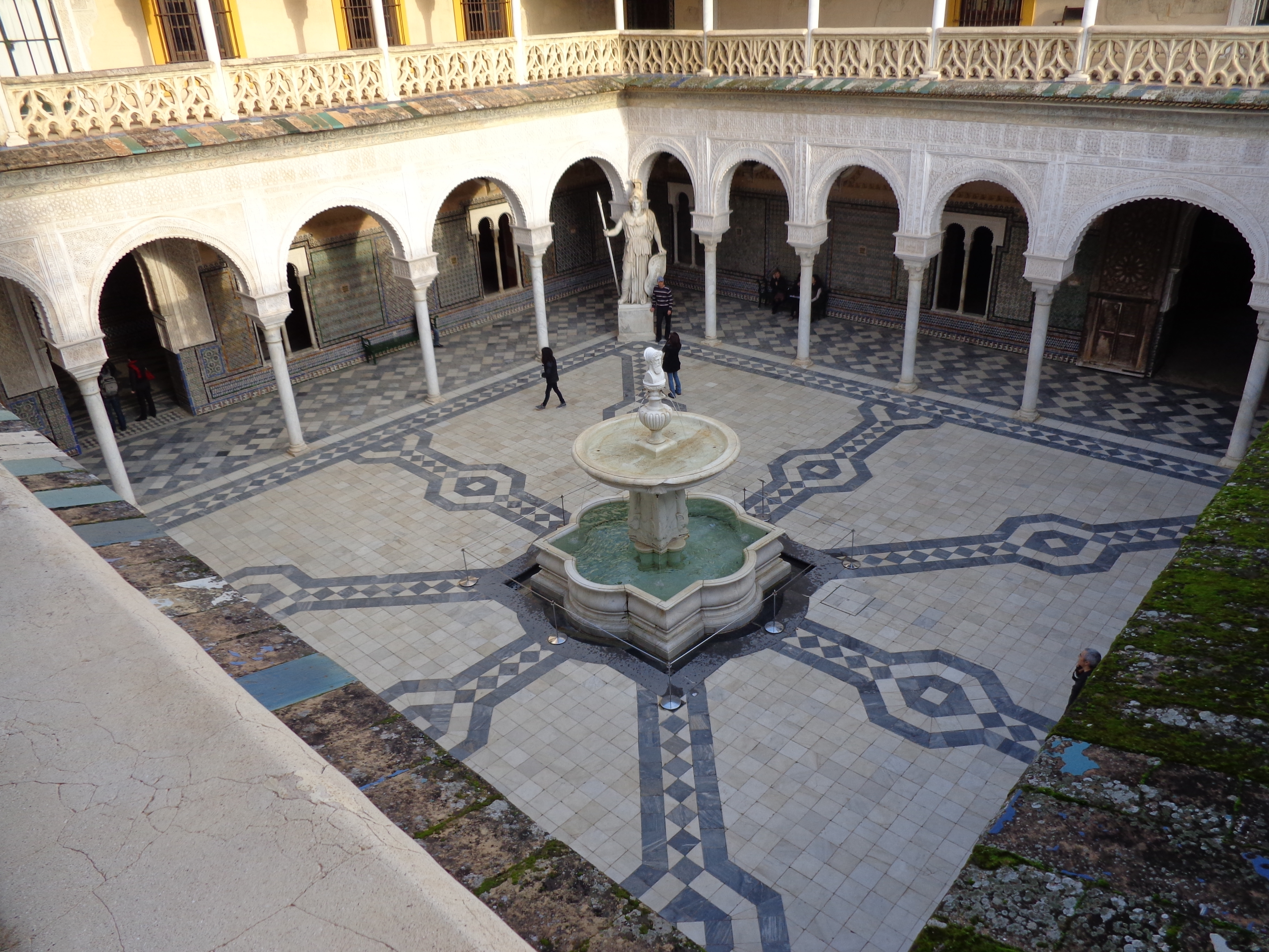 Casa de Pilatos, Seville